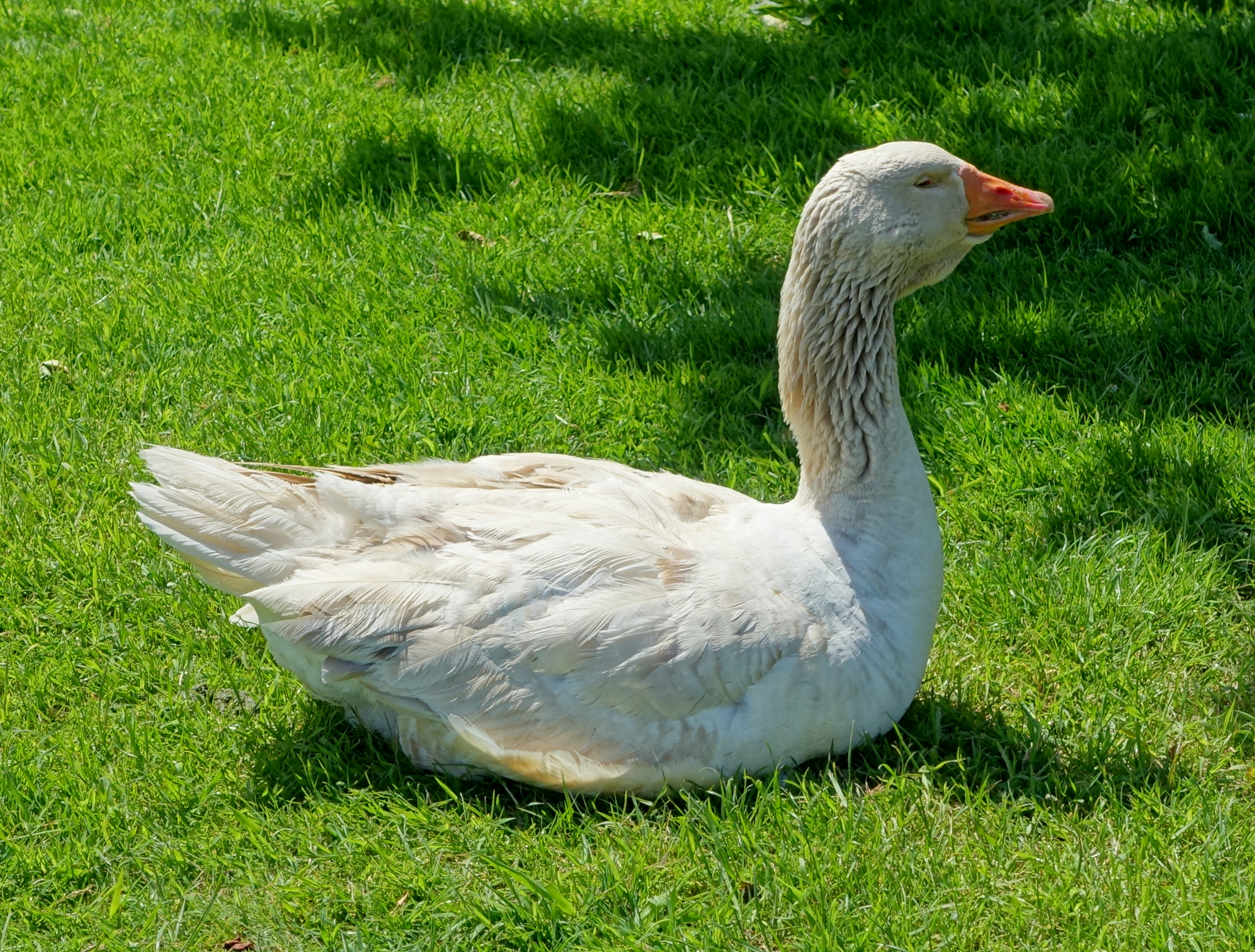 American Buff goose - Lost Gardens of Heligan - Cornwall, England.